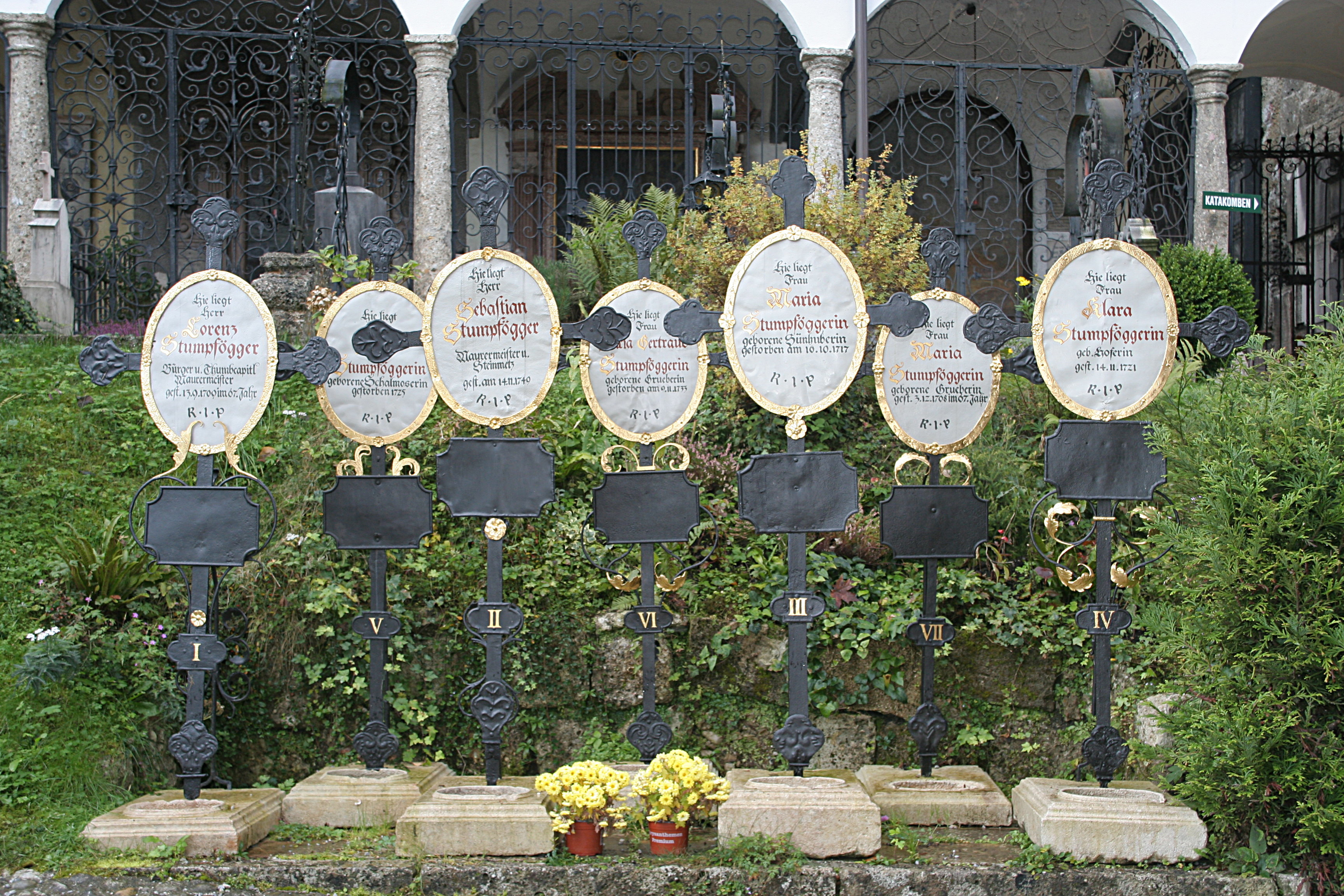 St.Peter's cemetery Salzburg Grave of Sebastian Stumpfegger, master stonemason and assistant to Johann Bernhard Fischer von Erlach (cross no. II), his parents (cross no. I and VII) and his four wives (cross no. III, IV, V, VI). Anecdotes stating that the crosses commemorate "Stumpfegger and his six wives, whom he killed" are apocryphal and false.